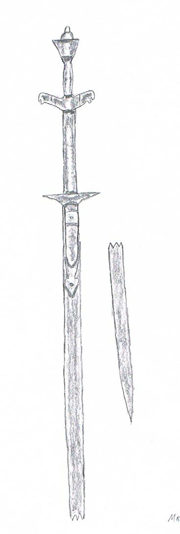 Mel Puttah Behmoh